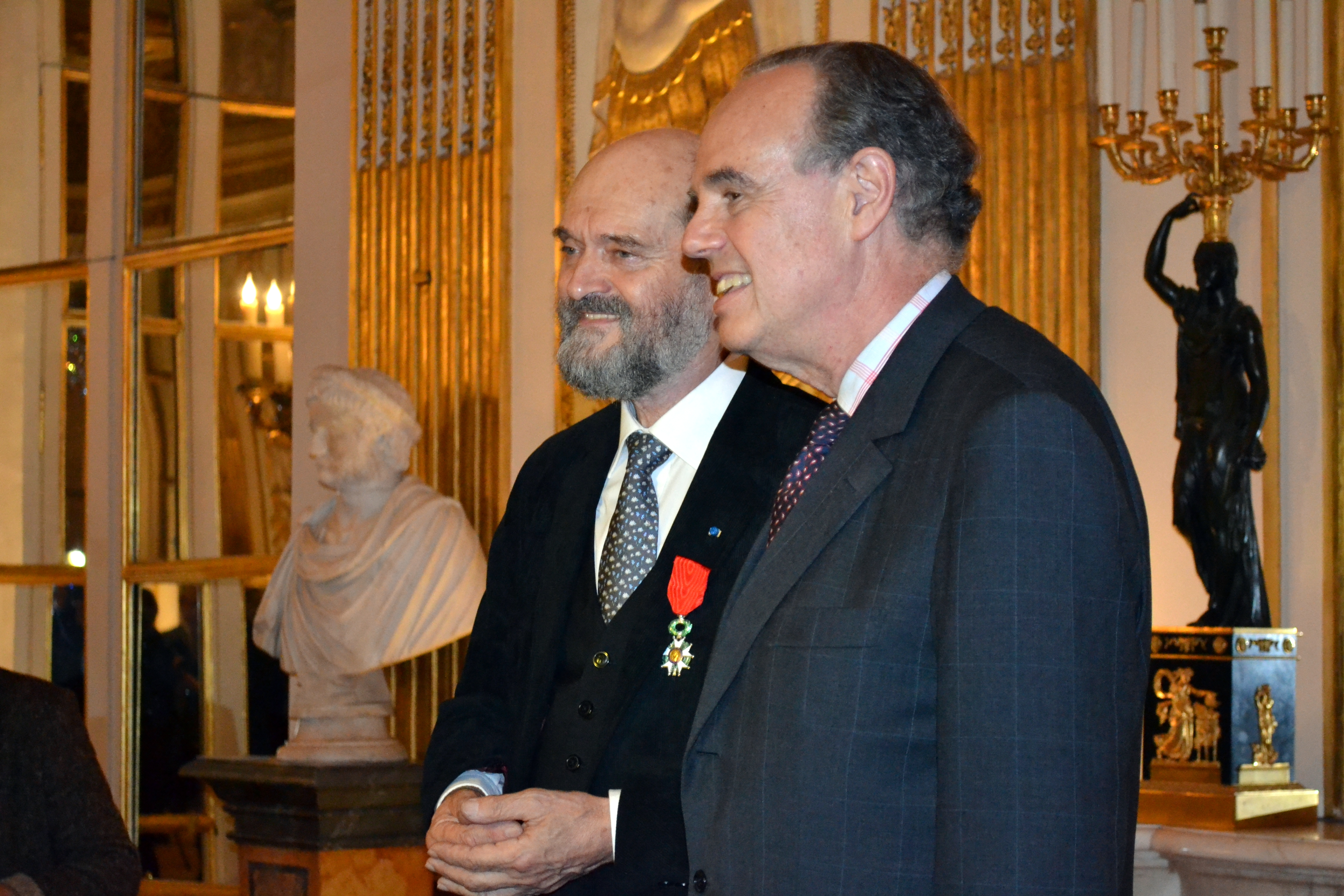 French Minister of Culture Frédéric Mitterrand presented Arvo Pärt with the highest decoration in France, Knight of the National Order of the Legion of Honour, 2 November 2011